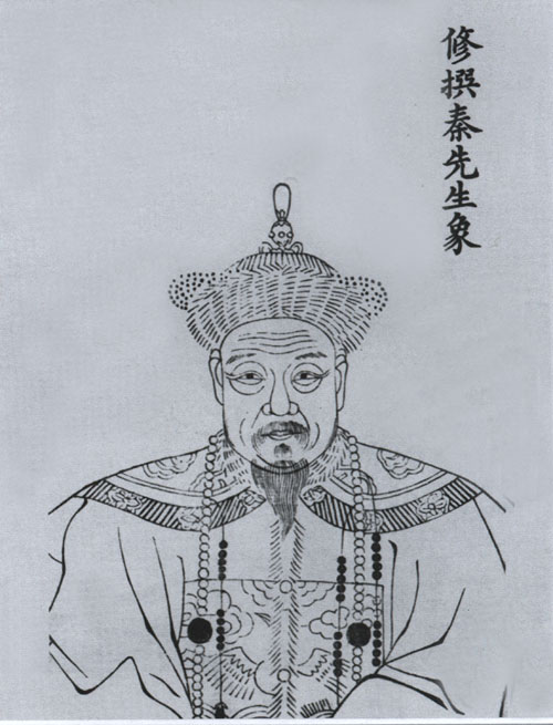 Qin Dacheng